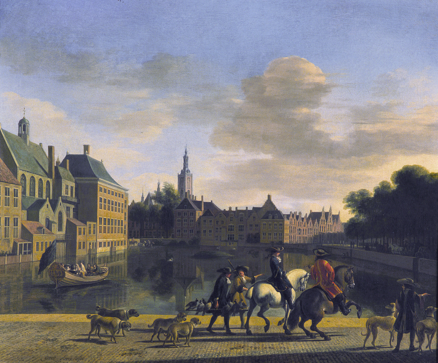 The Hofvijver seen from Korte Vijverberg